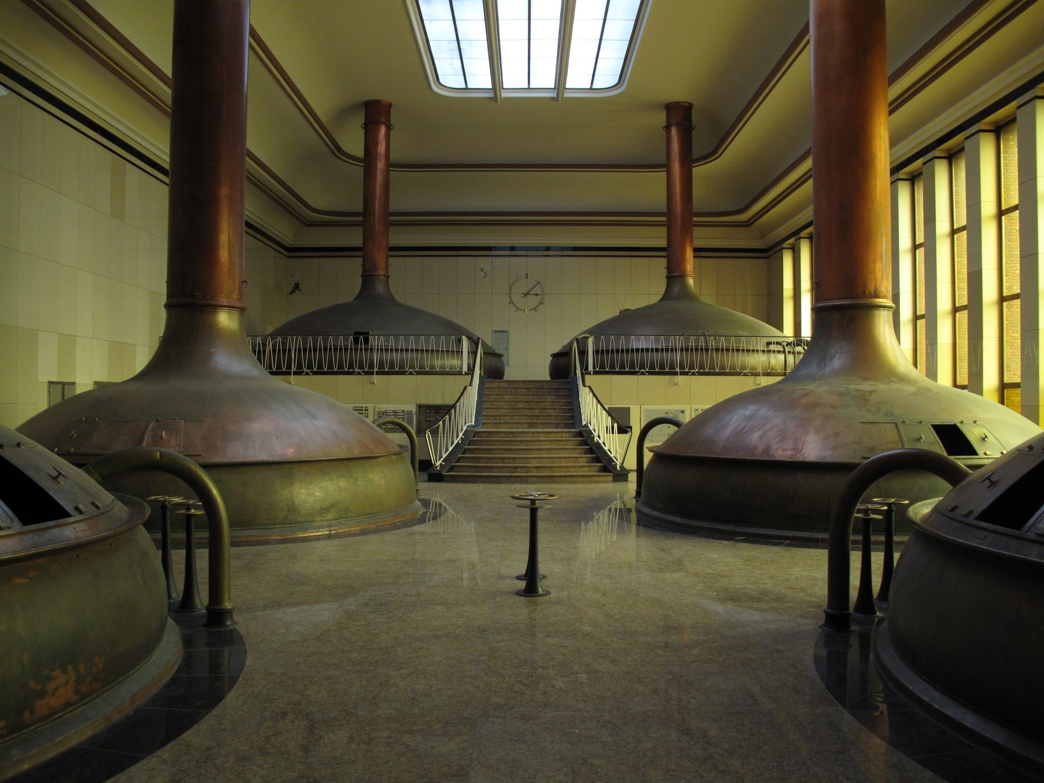 Brewhouse of Berliner Kindl Brewery Neuölln in 2010